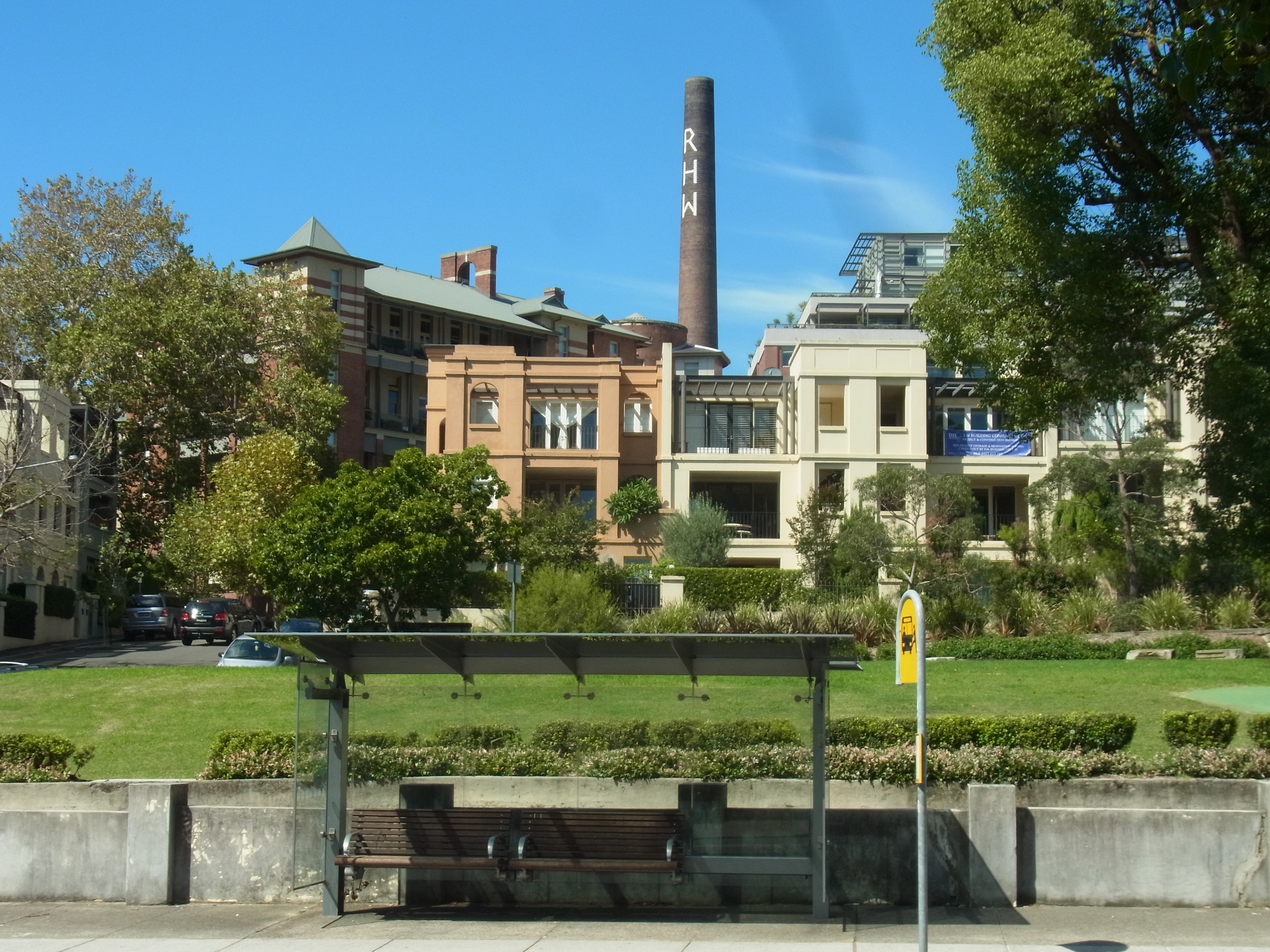 View from Glenmore Road of new housing and reused hospital buildings with heritage chimney behind